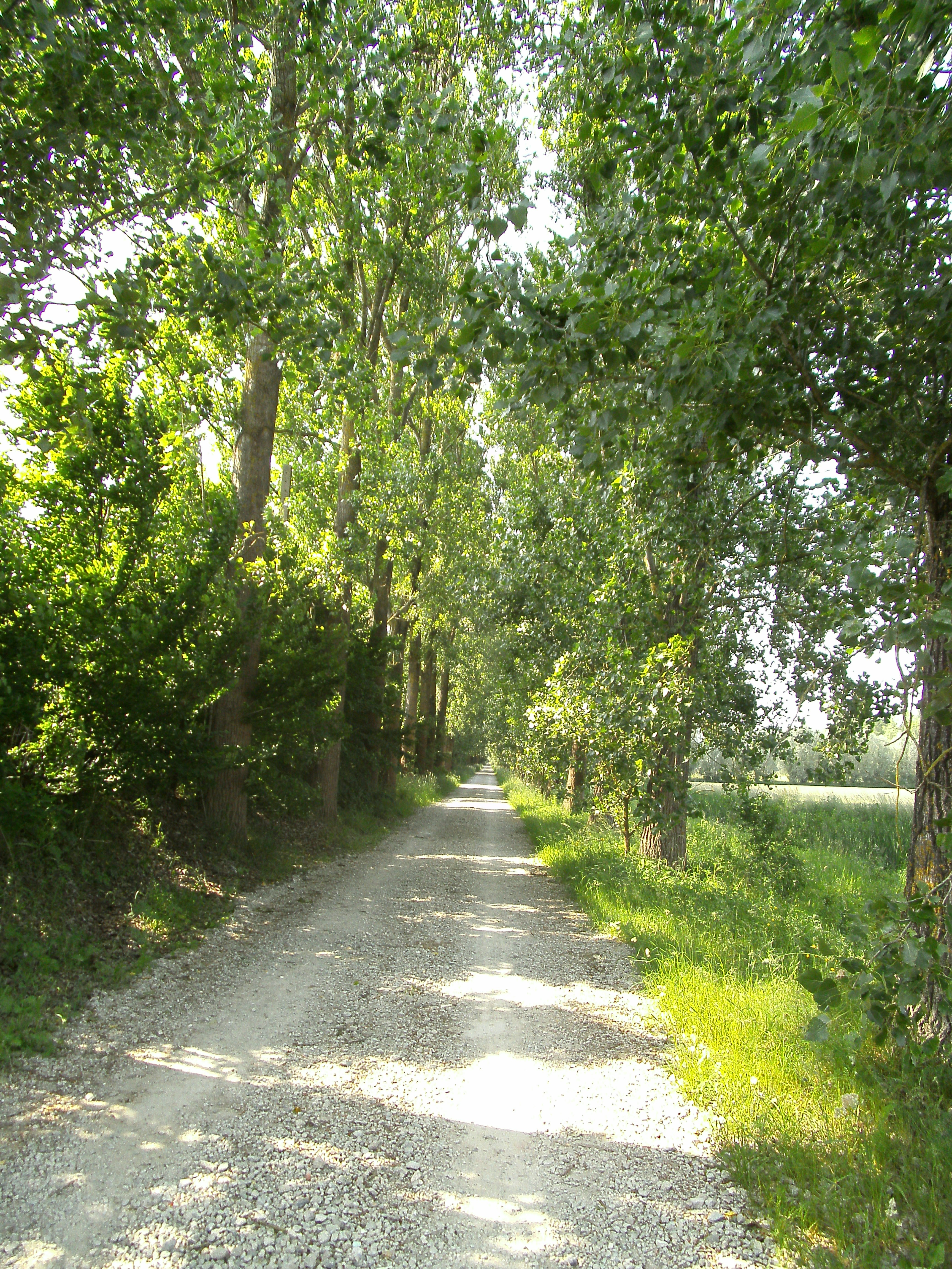 The road at the eastern edge of the Bos van Aa nature area